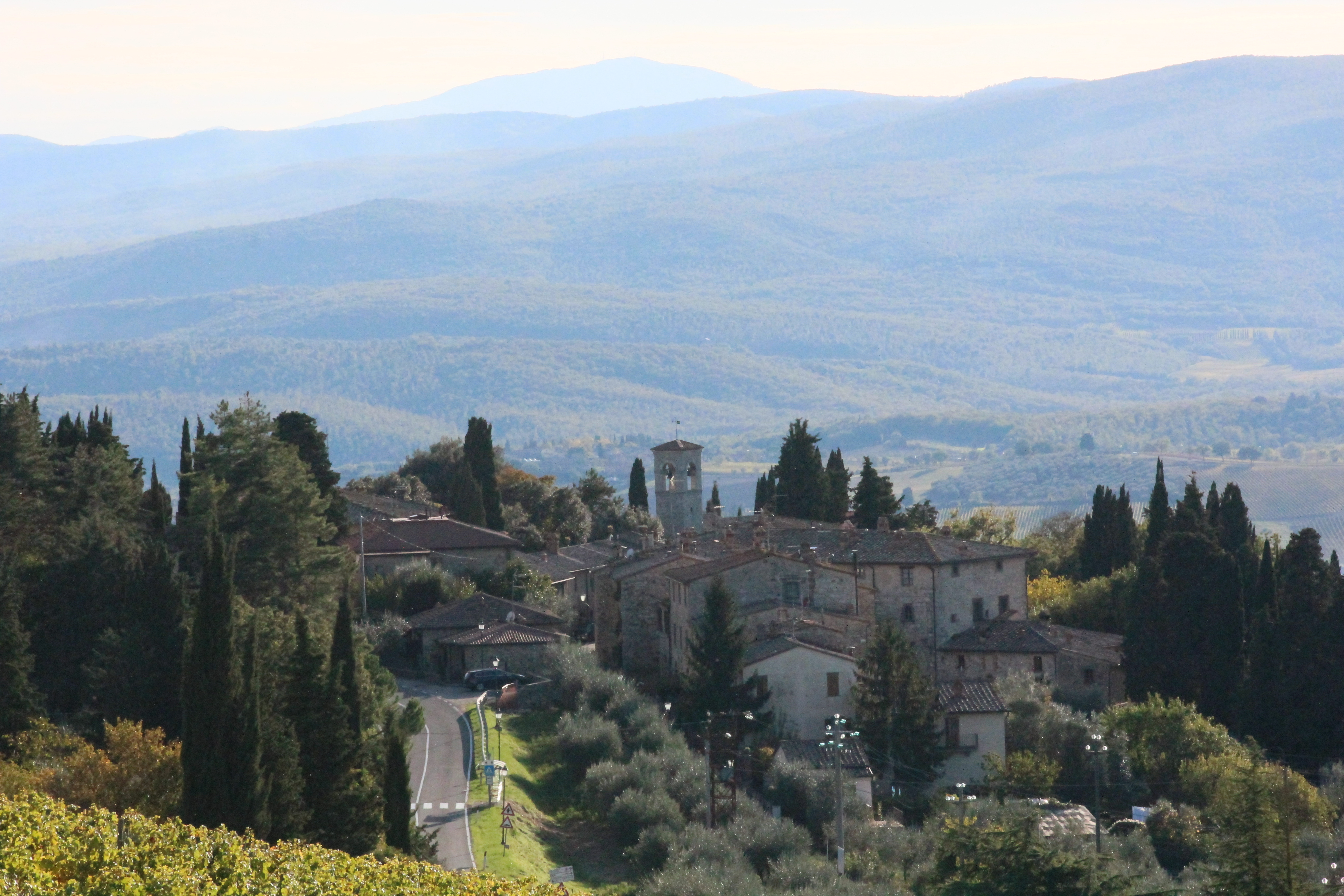 Panorama of Fonterutoli, hamlet of Castellina in Chianti, Province of Siena, Tuscany, Italy